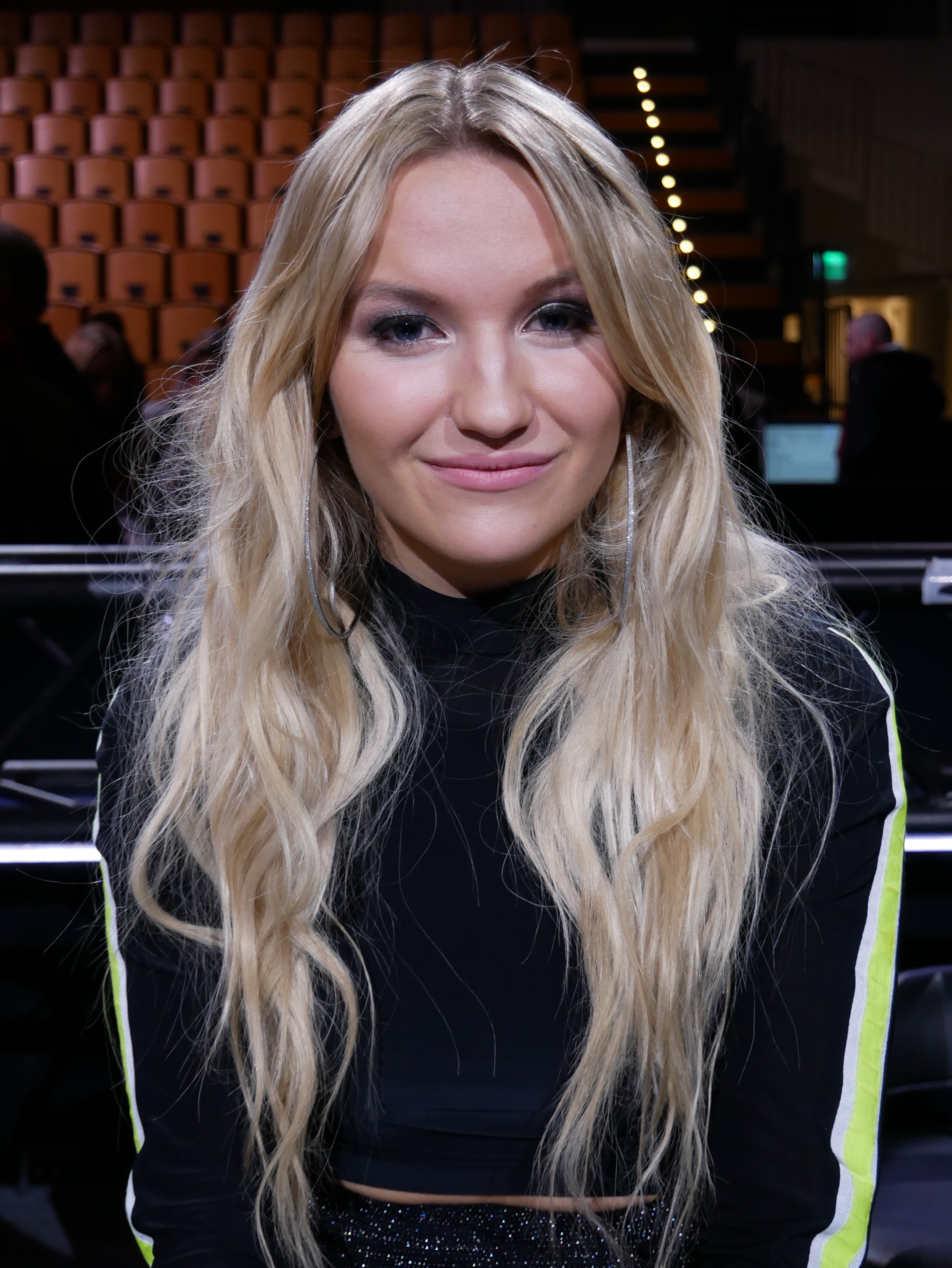 Olivia Eliasson.. At the Swedish Melodifestivalen 2018, in Kristianstad